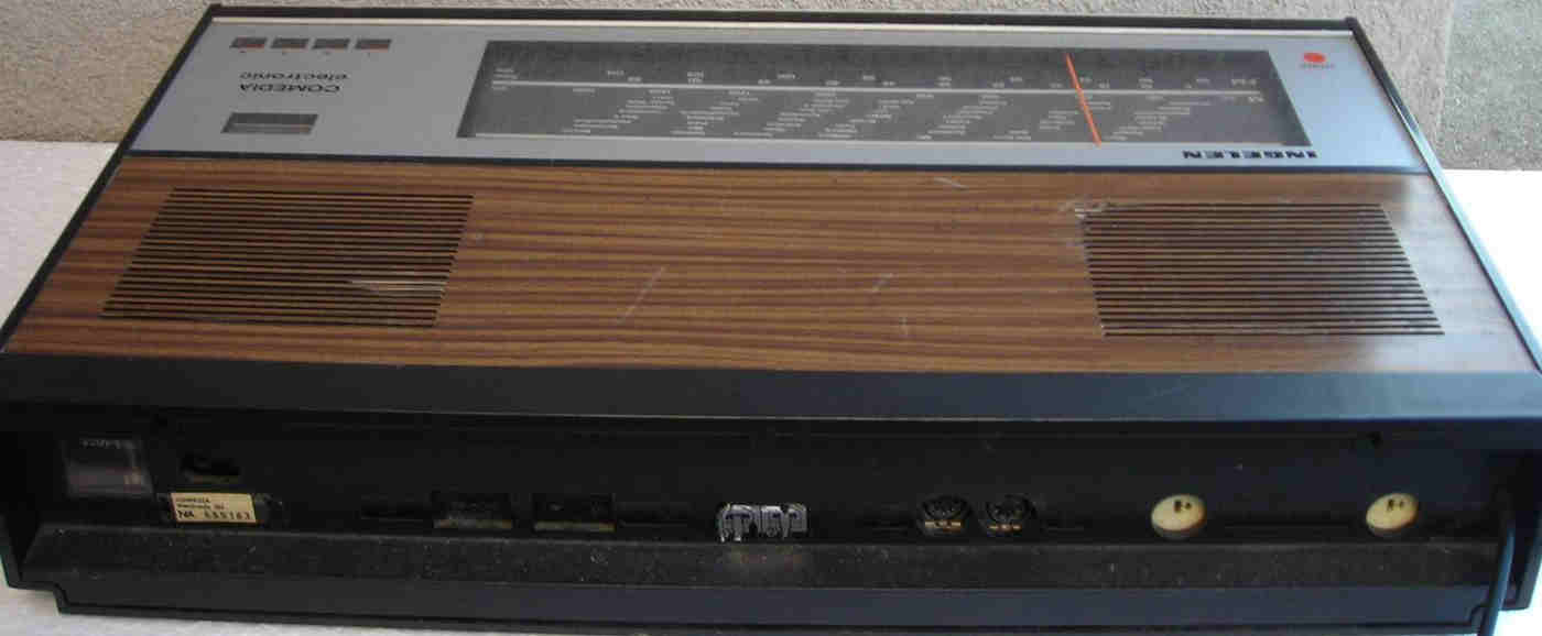 Ingelen Comedia Electronic Radio/Receiver, back side view